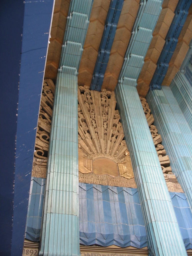 Photo of the Eastern Columbia Building front entrance looking up at tilework above the doors.